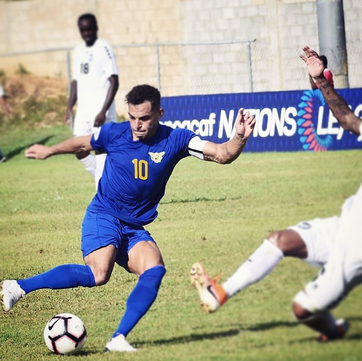 JC Mack CONCACAF Nations League 2019